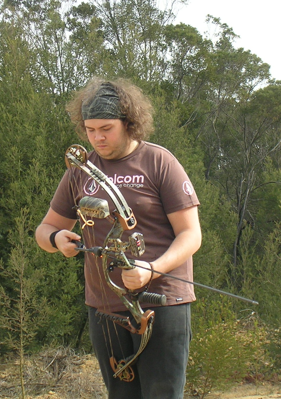 An archer holding a hunting bow.